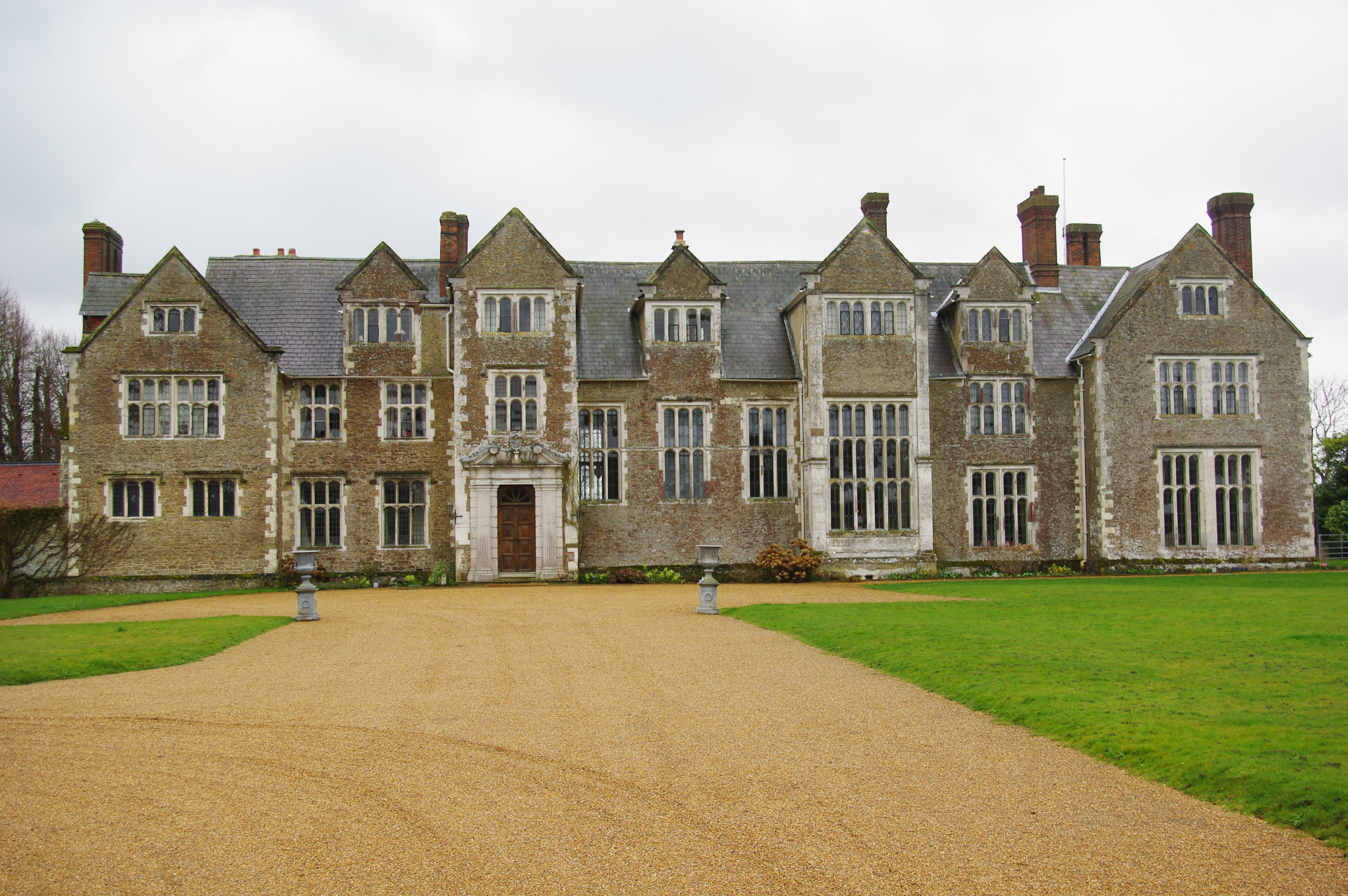 Loseley Park